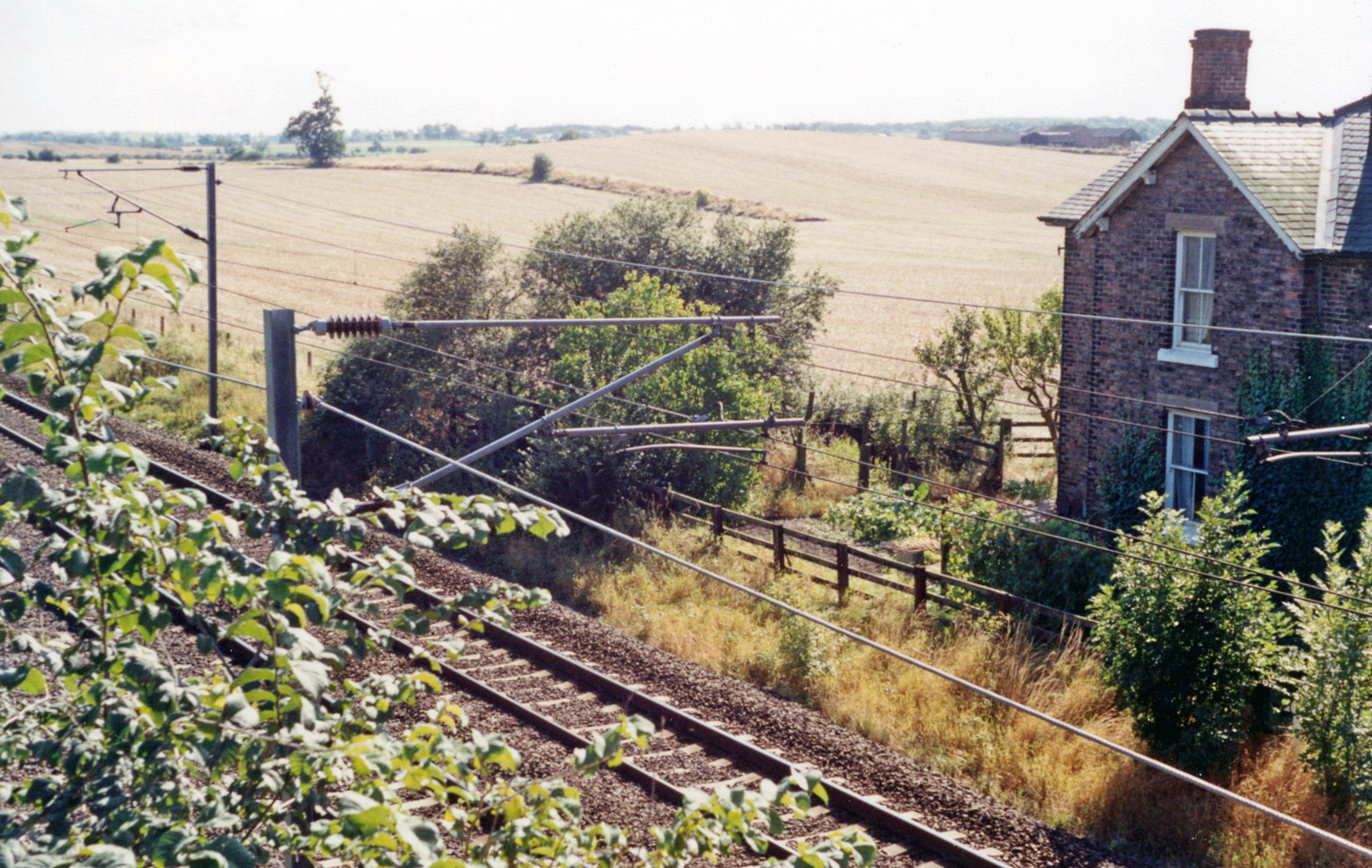 Site of Danby Wiske station, ECML 1991. View southward, towards Northallerton, York etc.: ex-NER section of the East Coast Main Line, electrified 1989. The small wayside station was closed 15/9/58. The house on the right may have been the station house.